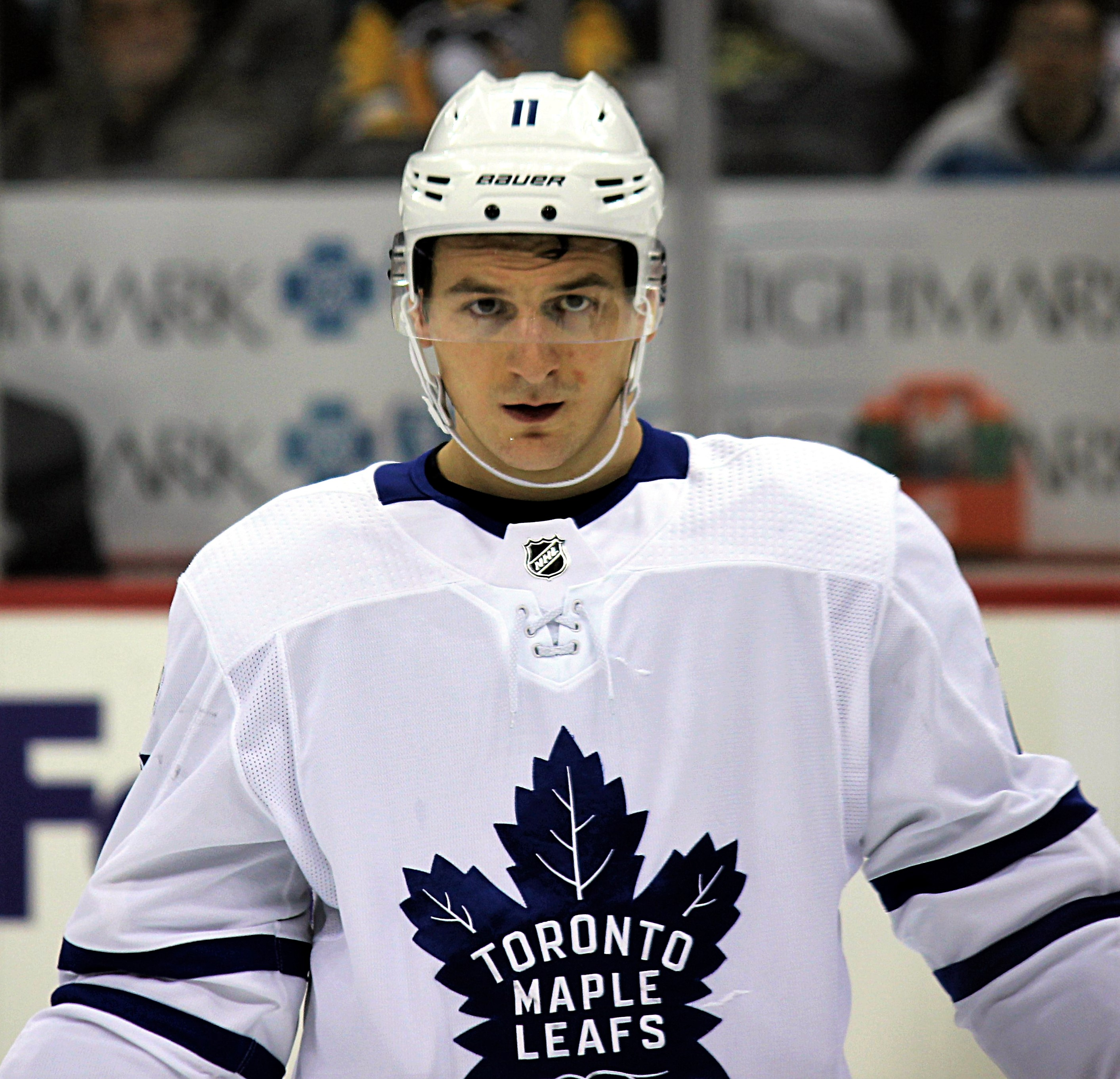 Toronto Maple Leafs forward Zach Hyman during a game against the Pittsburgh Penguins, December 9, 2017, at PPG Paints Arena in Pittsburgh, PA.